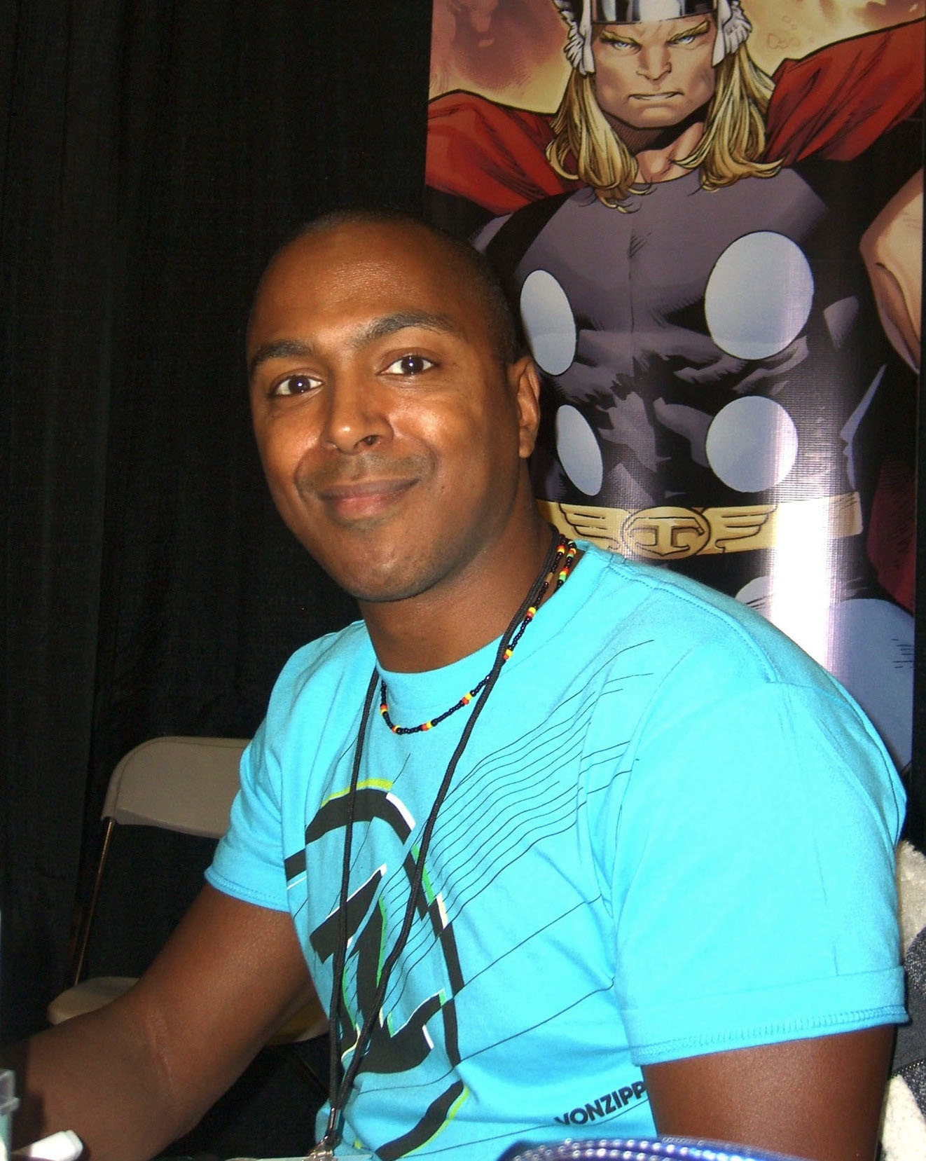 Comic book creator Olivier Coipel, at the New York Comic Convention in Manhattan, October 10, 2010. This photo was created by Luigi Novi. It is not in the public domain, and use of this file outside of the licensing terms is a copyright violation.